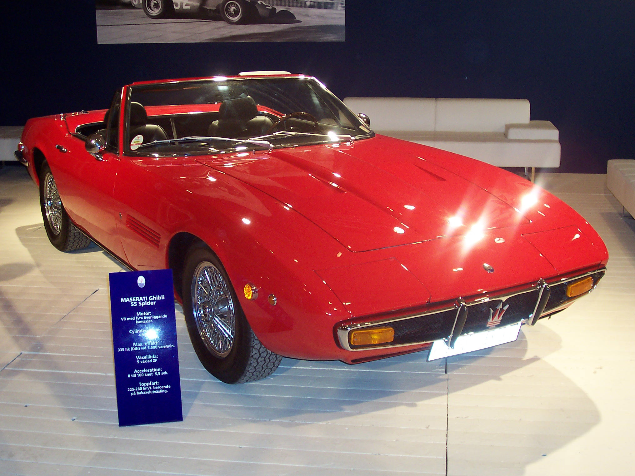 Maserati Ghibli SS Spider, 4.9 litres